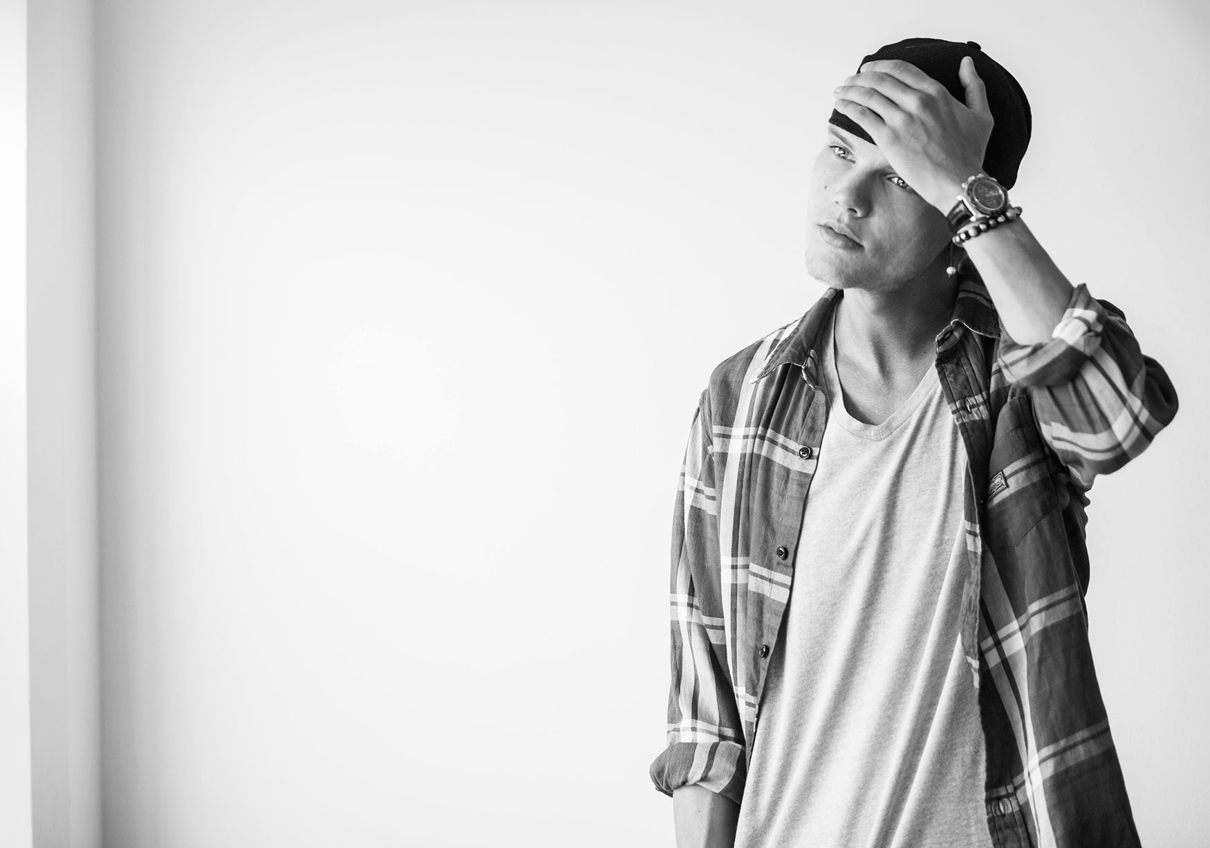 The Swedish DJ Avicii.